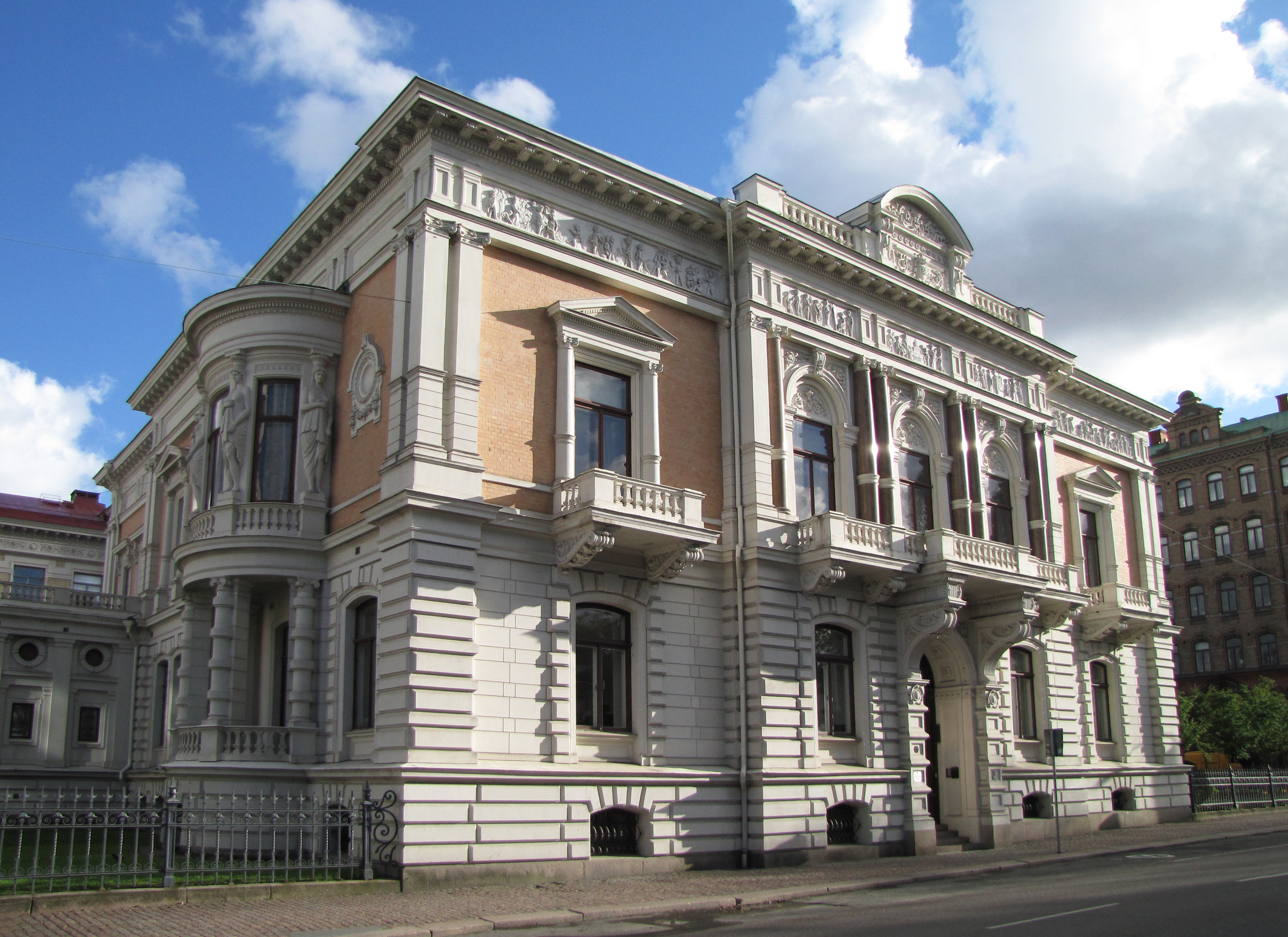 "Wernerska villan", the Werner house in central Göteborg.